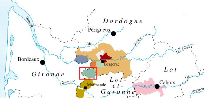 Wine-growing areas of South West France (Sud-Ouest)